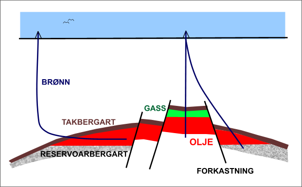 Sketch of an oil reservoir. Text in Norwegian